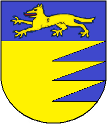 Coat of arms of Courtedoux, Canton of Jura, Switzerland